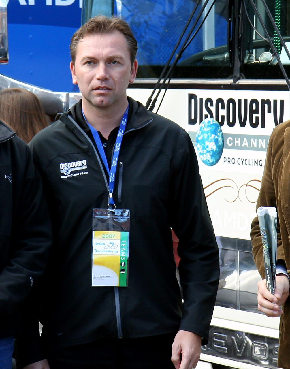 Johan Bruyneel. From the Amgen Tour of California prologue in San Francisco, February 18, 2007